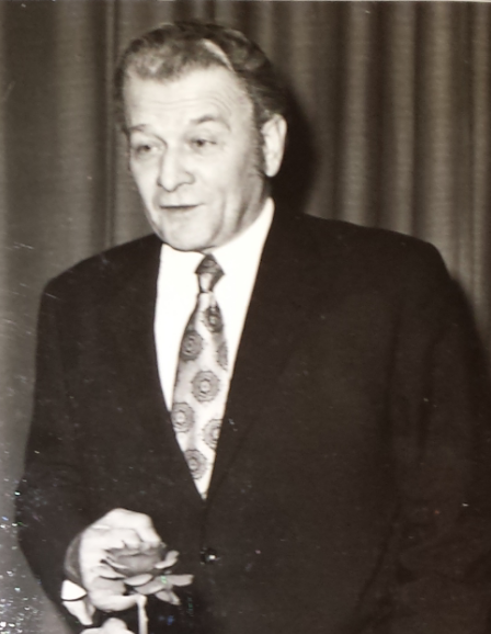 Walter Veigel 65th Birthday